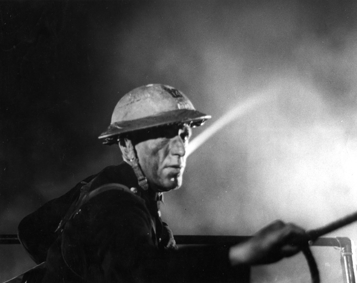 Description: Still from the documentary "Fires Were Started" directed by Humphrey Jennings for the Crown Film Unit. Date: 1943 Our Catalogue Reference: INF 6/985 This image is from the collections of The National Archives. Feel free to share it within the spirit of the Commons. For high quality reproductions of any item from our collection please contact our image library.